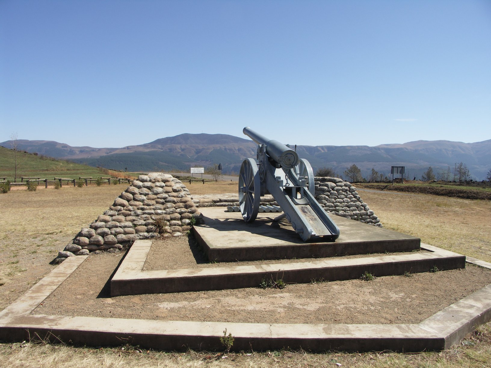 Replica of a Long Tom Canon located in the Long Tom pass between Lydenburg and Sabie in Mpumalanga, South Africa